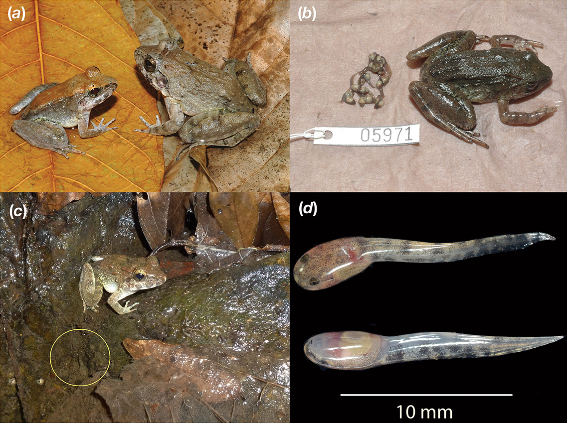 "Images of Limnonectes larvaepartus. (a) MVZ 268323 (male, left) and MVZ 268307 (female, right) collected from Desa Uaemate along the Tasio-Tibo Road, Kabupatan Mamuju, Provinsi Sulawesi Barat, Sulawesi Island (02.61287S, 119.14238 E, 89 m elev.); (b) Limnonectes larvaepartus female (MVZ 268426) with tadpoles removed from the oviduct. Note the large yolk reserves available to the tadpoles; (c) An in situ adult male L. larvaepartus (JAM 14234) observed calling while perched on the edge of a small pool 2 m away from a 2 m wide stream; several L. larvaepartus tadpoles were present in the pool including the two visible within the yellow circle; (d) dorsal and ventral views of ~stage 25 L. larvaepartus tadpoles (JAM 14271) released by a pregnant female (JAM 14237) at the moment of capture."